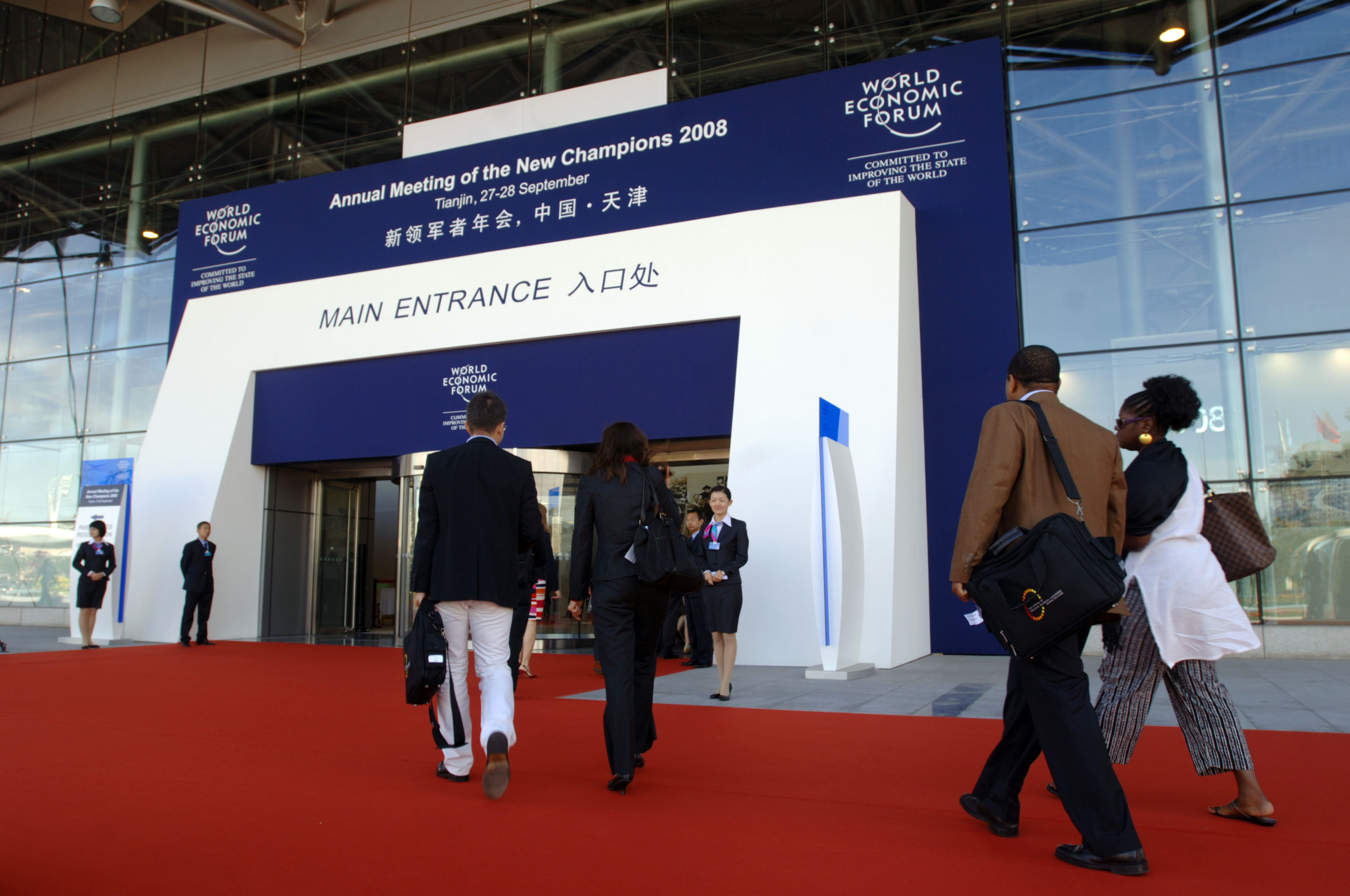 TIANJIN/CHINA, 26SEPT08 - Participants arrive at the World Economic Forum Annual Meeting of the New Champions in Tianjin, China 26 September 2008. Copyright World Economic Forum ( by Adam Nadel